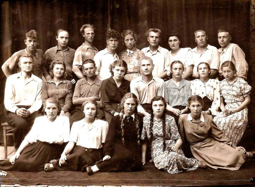 College of Skopin. School-leavers (1954)